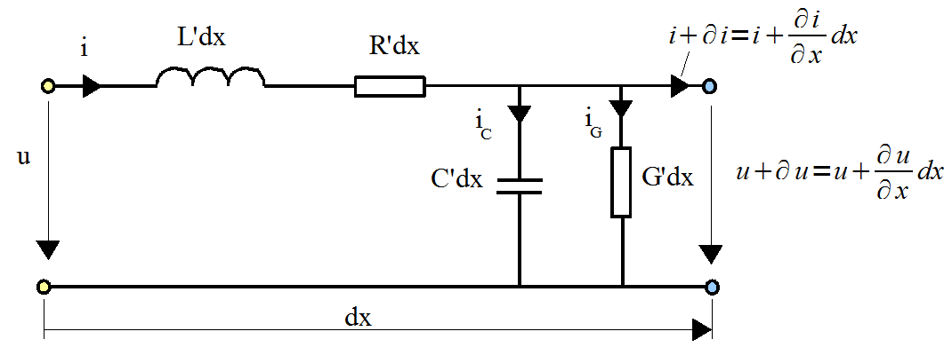 Leitungselement dx, Segment dx of electrical transmission line